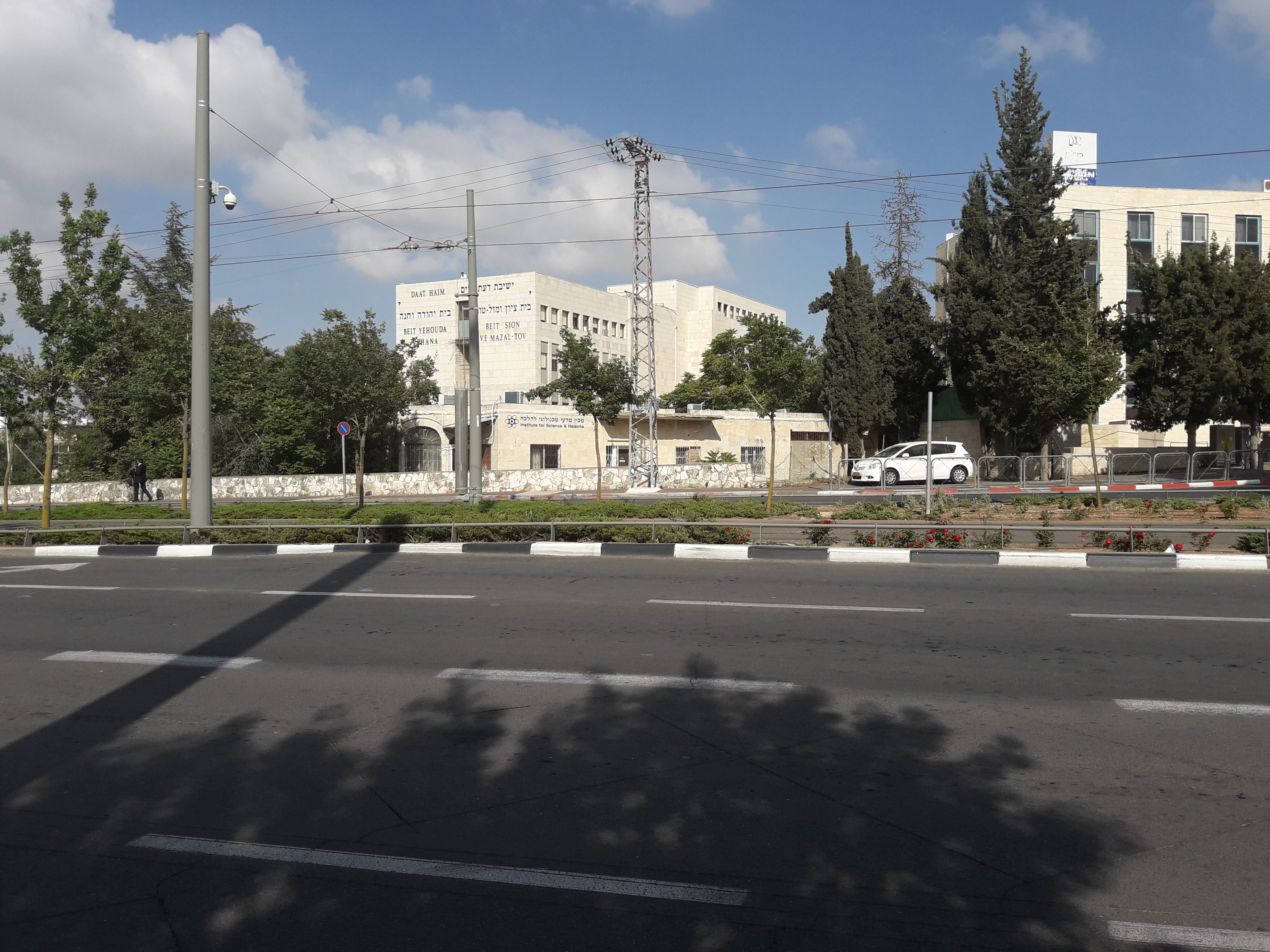 Institute for Science and Halakhah